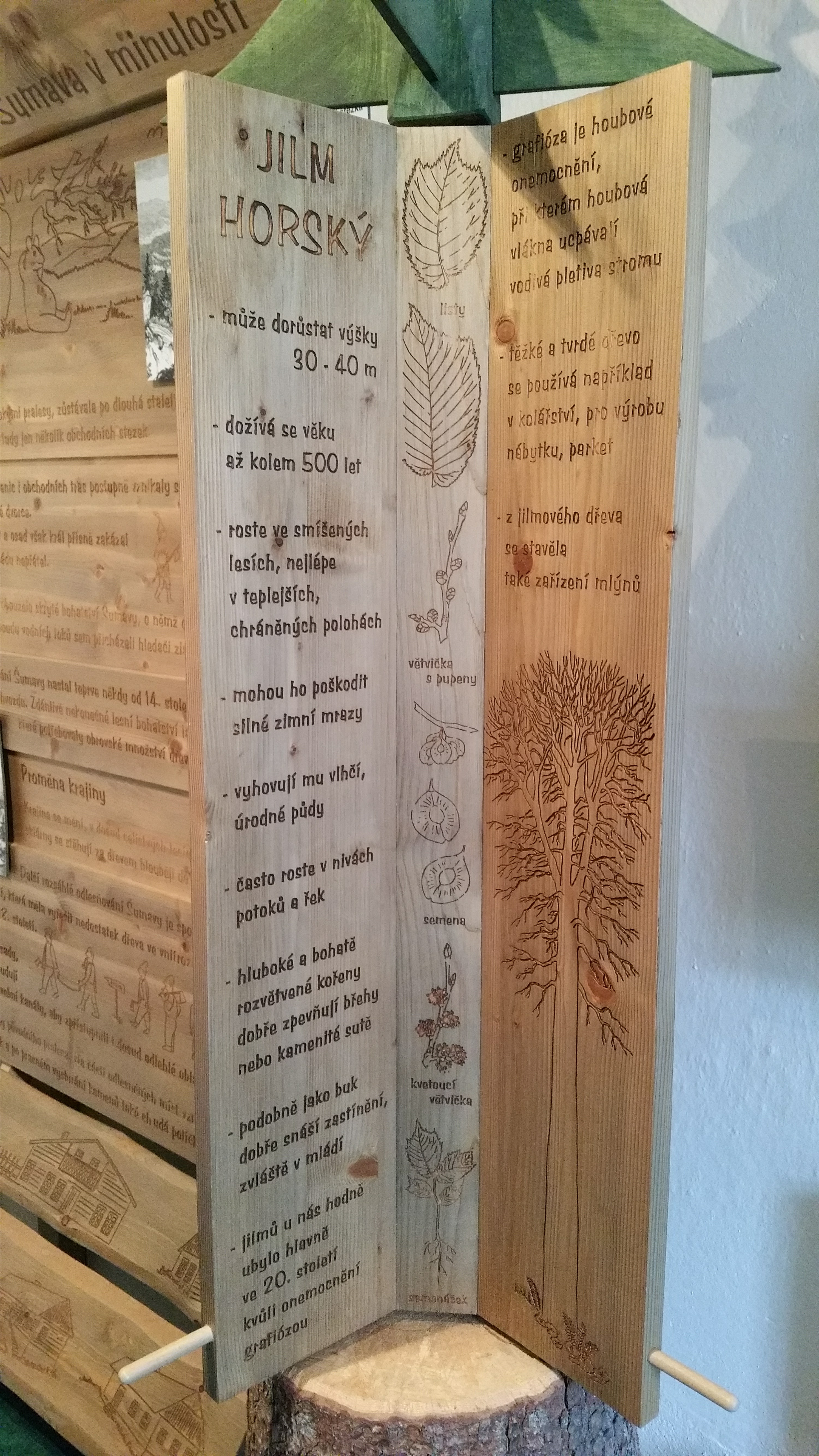 Museum of Vimperk - Šumava nature